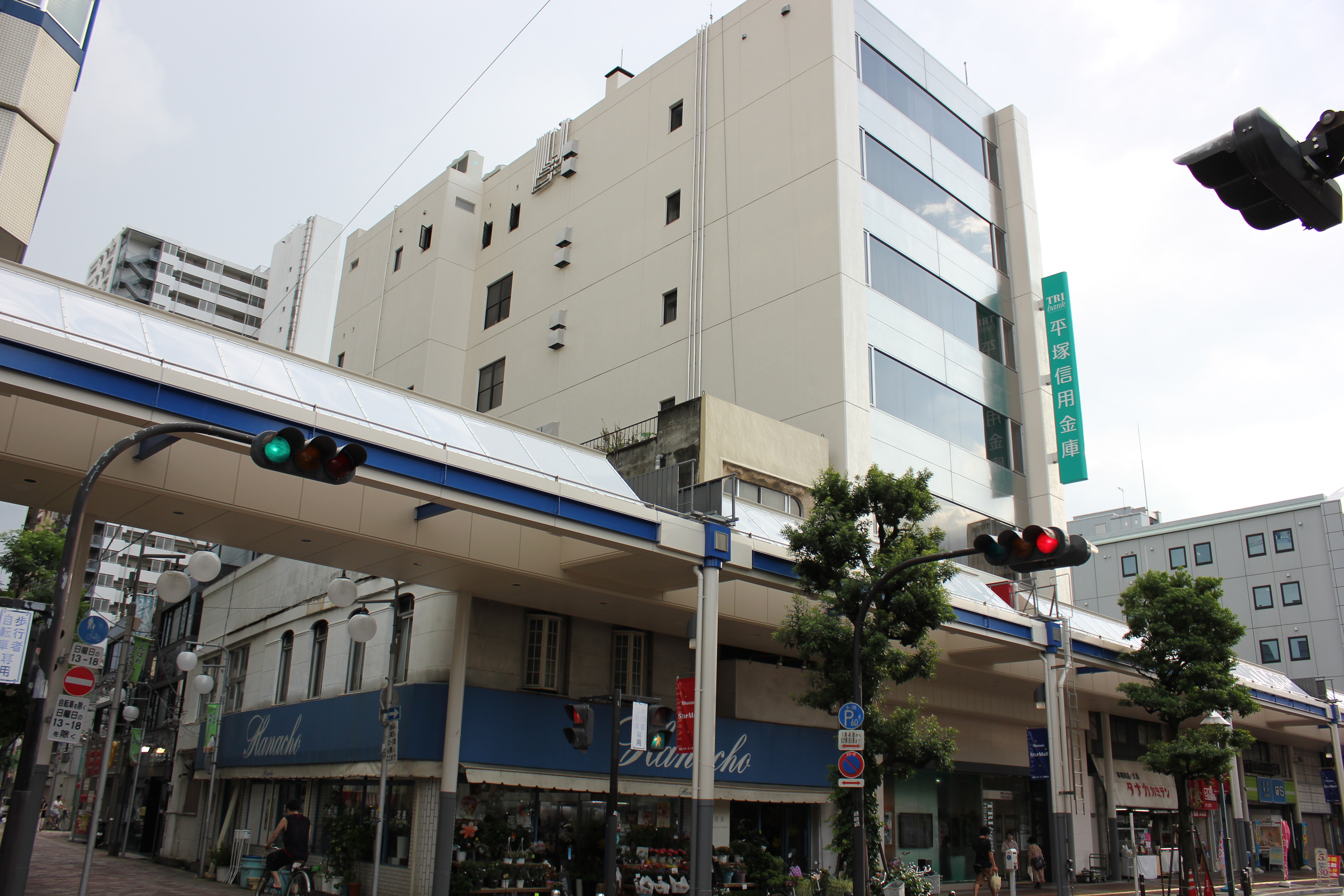 Hiratsuka Shinkin Bank